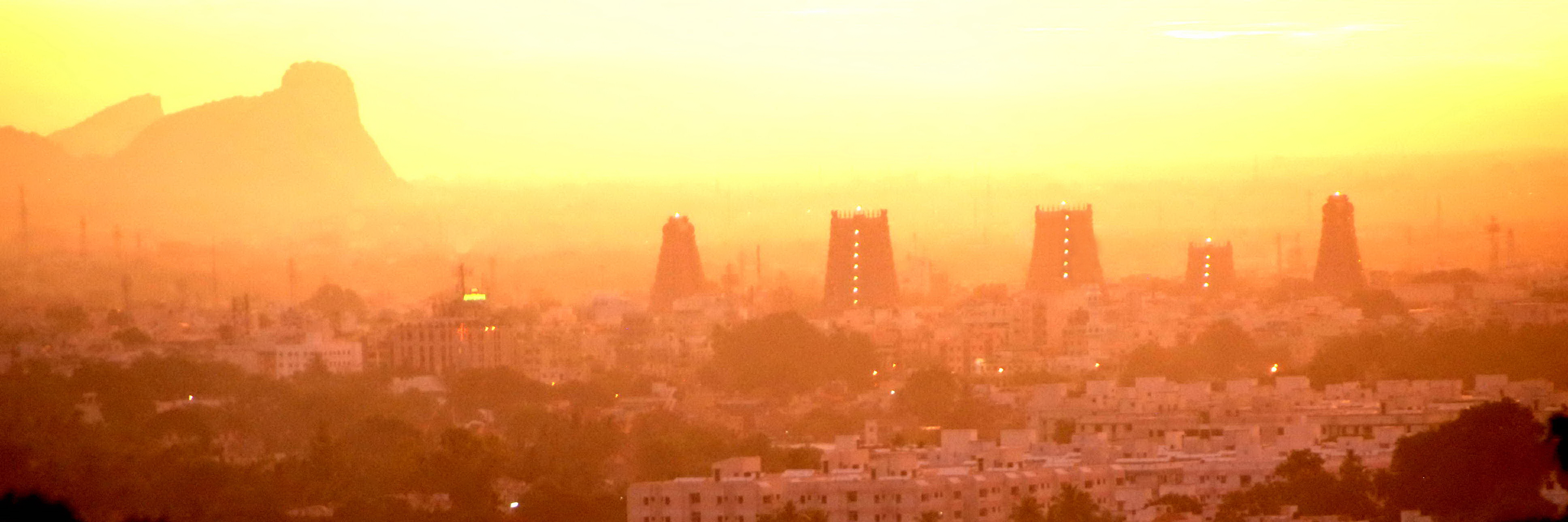 Dawn in Madurai city